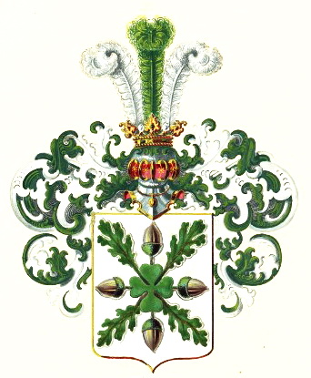 Coat of Arms of family Kern